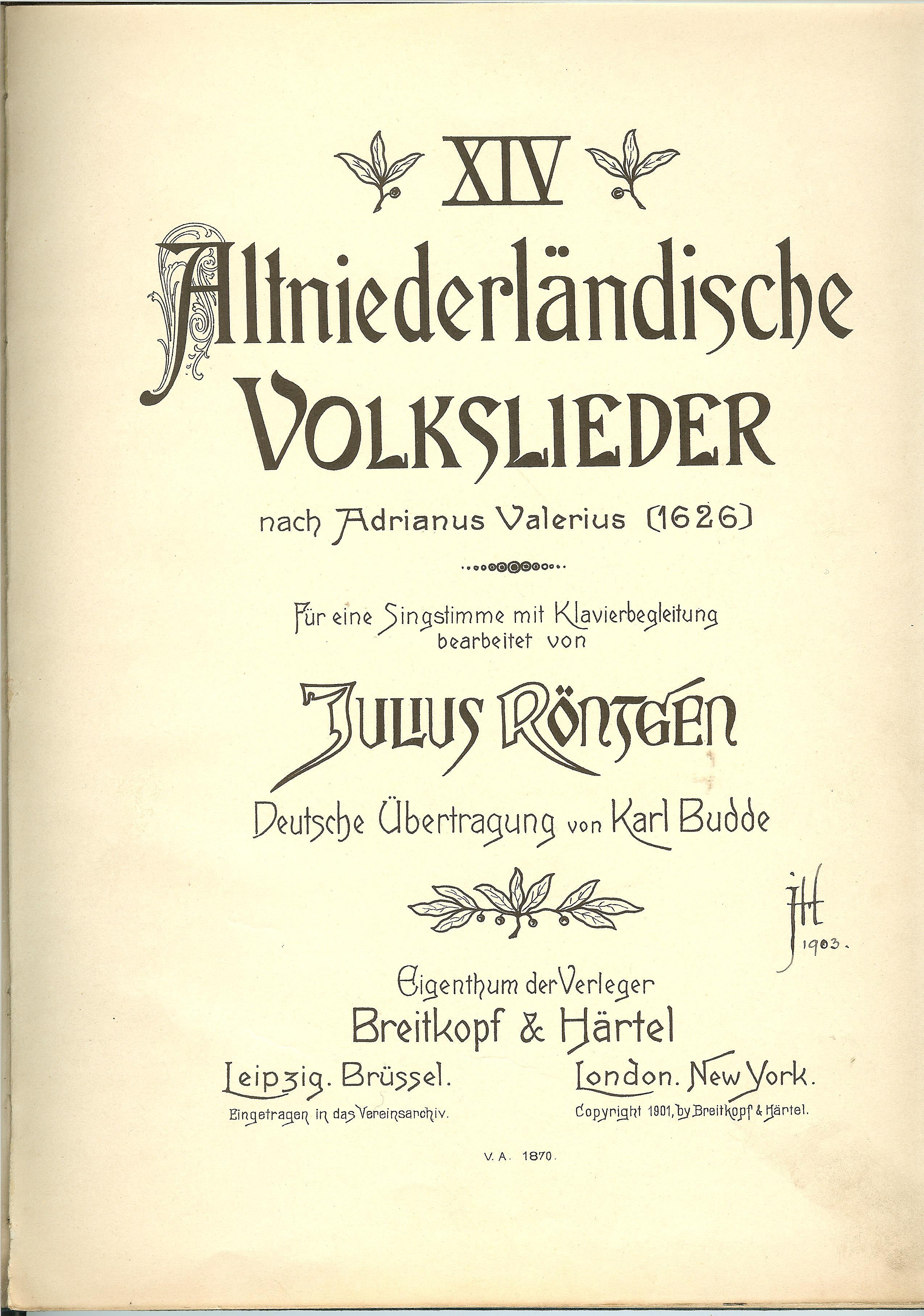 Title page of XIV Altniederländische Volkslieder" nach Adrianus Valerius (1626) by Julius Röntgen and Karl Budde